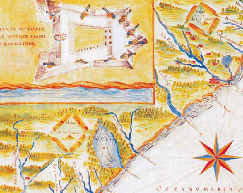 Detail of an early 17th-century map of Rio Grande do Norte in colonial Brazil showing the Reis Magos Fortress